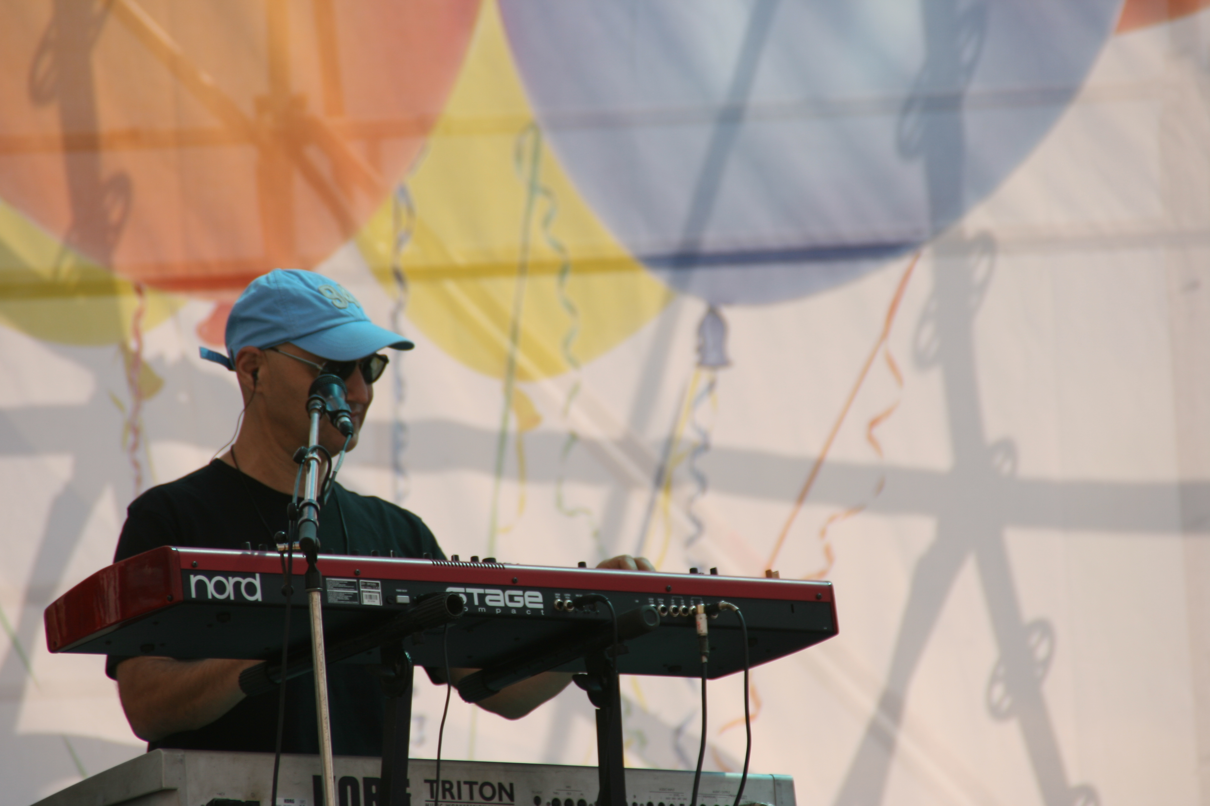 Yair Nitzni playing as aguitarist in Tislam during a performance in Achziv bitch in celebration of 60 to Israel